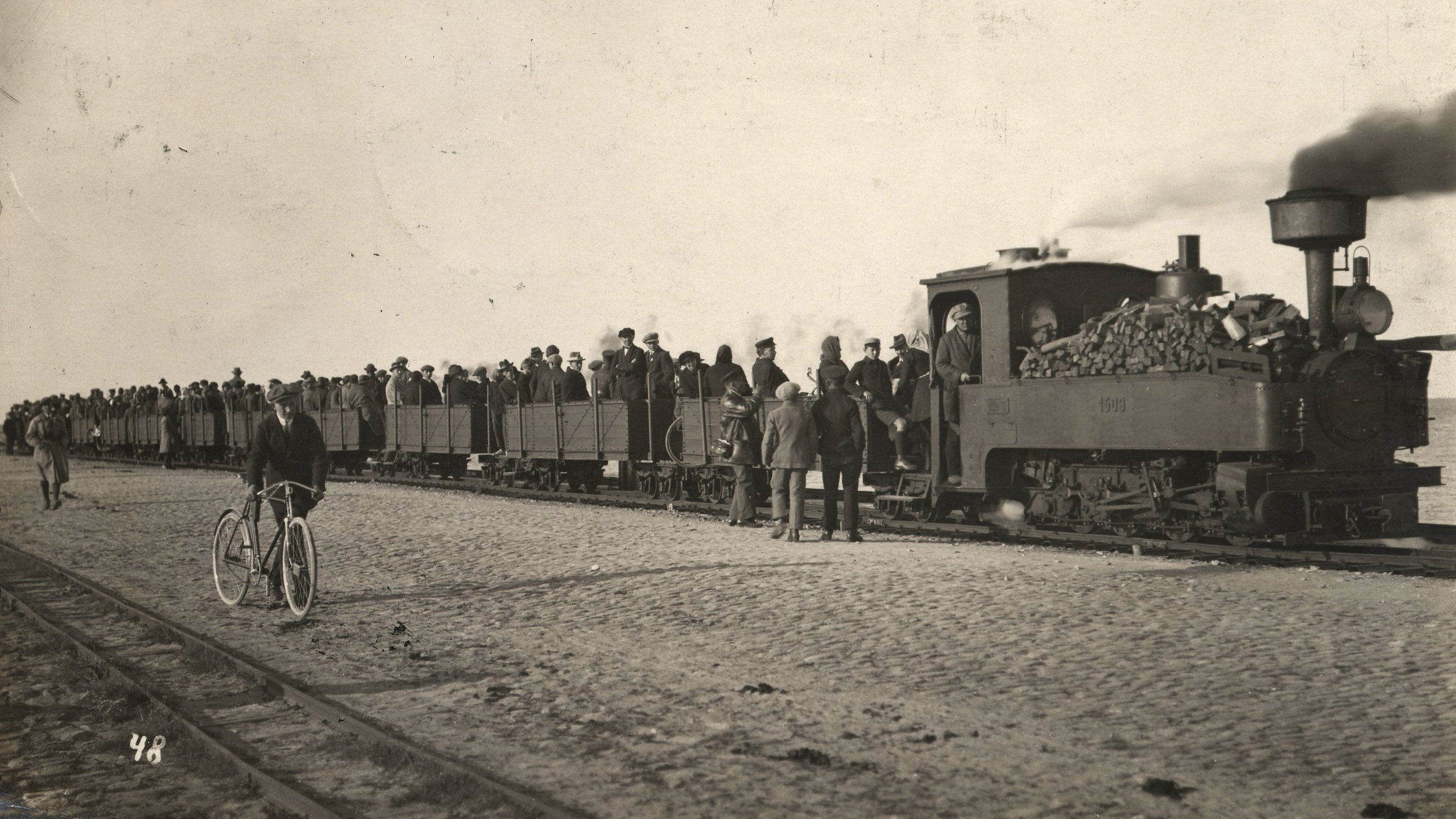 German "Brigadelok" HF 1509 (Henschel 15248/17) at Roomassaare on the Island of Saaremaa.